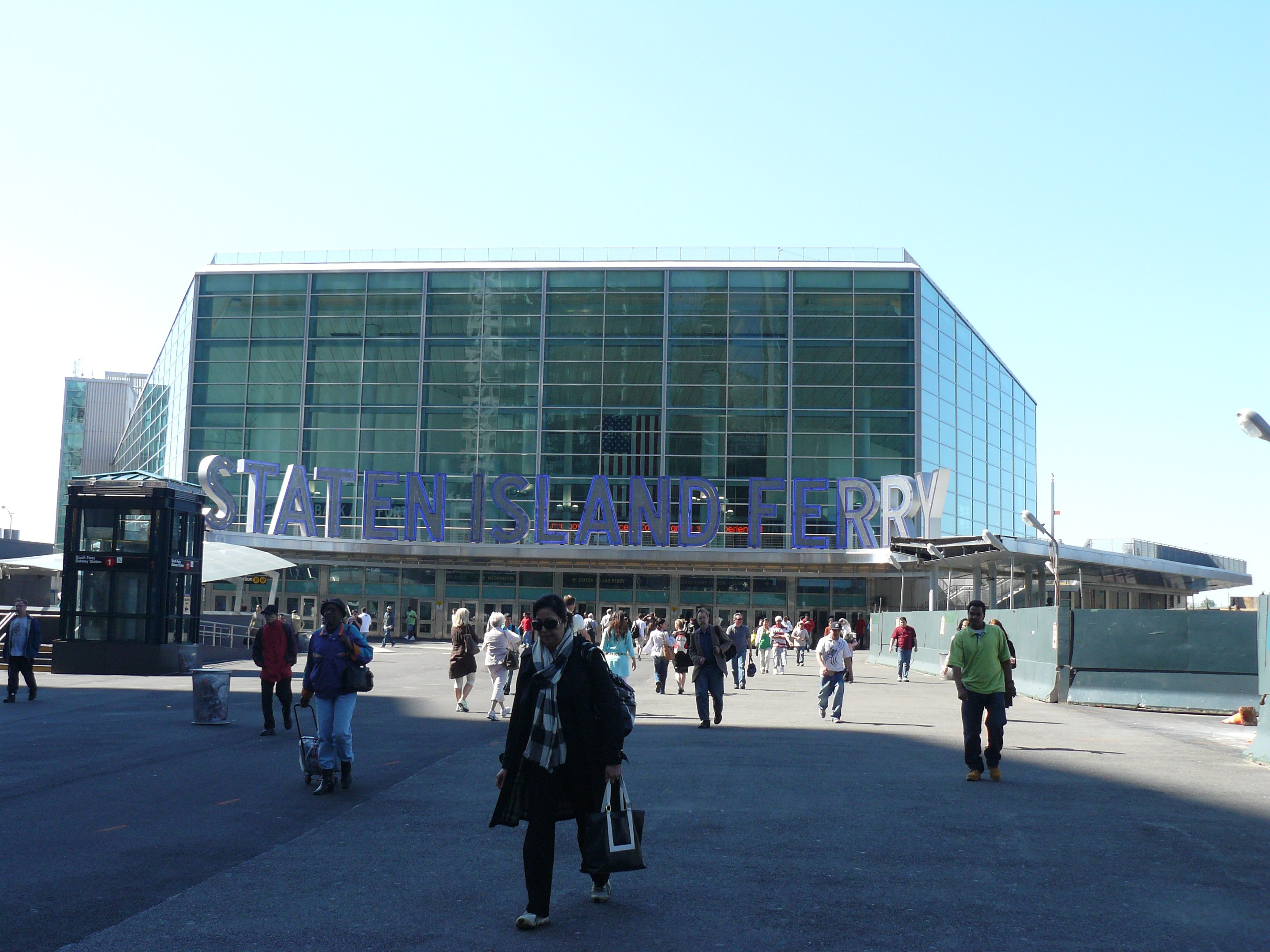 Fotos tiradas em Liberty & Ellis Island, NY/NJ ferias maio 2009